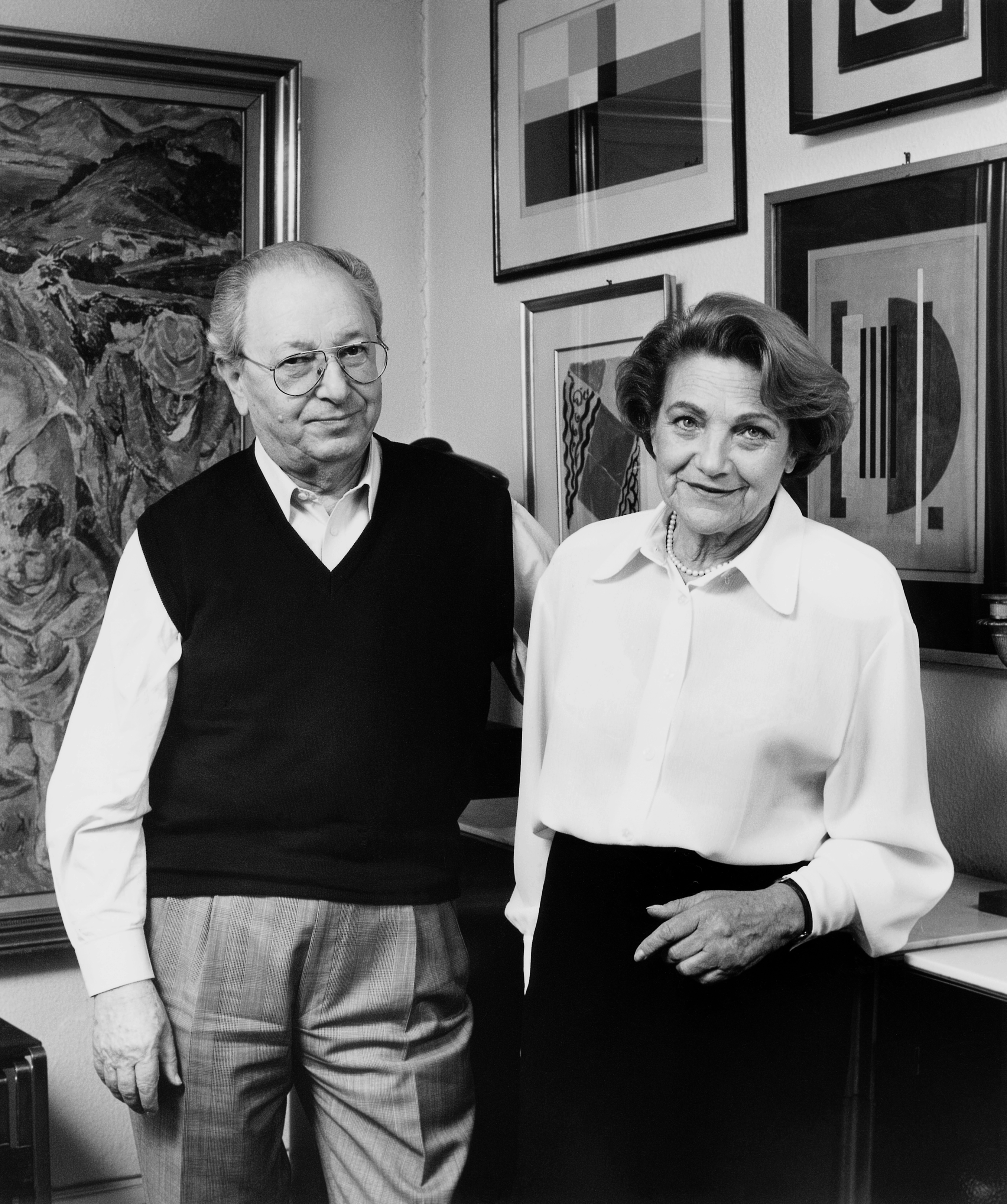 Kenda and Jacob Bar-Gera survived the Holocaust and the worse persecution in modern history. They swore themselves to support persecuted people where ever they are. That was the beginning of the amazing collection "The Second Russian Avantgarde".